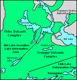 Map of lakes, deformation zones, volcanic complexes and the Chambers-Strathy Batholith in Strathy Township, Temagami, Ontario, Canada.